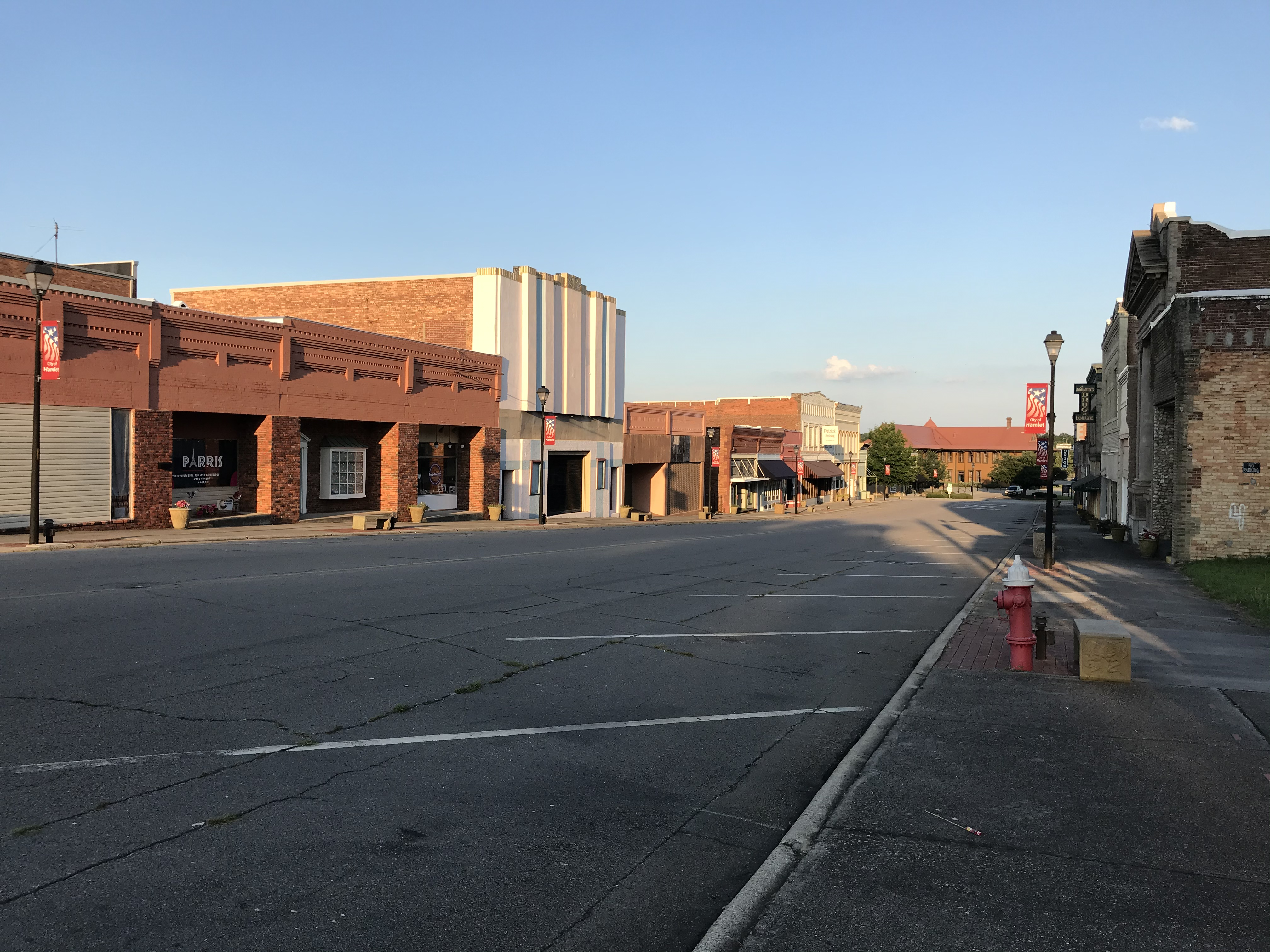 Main Street